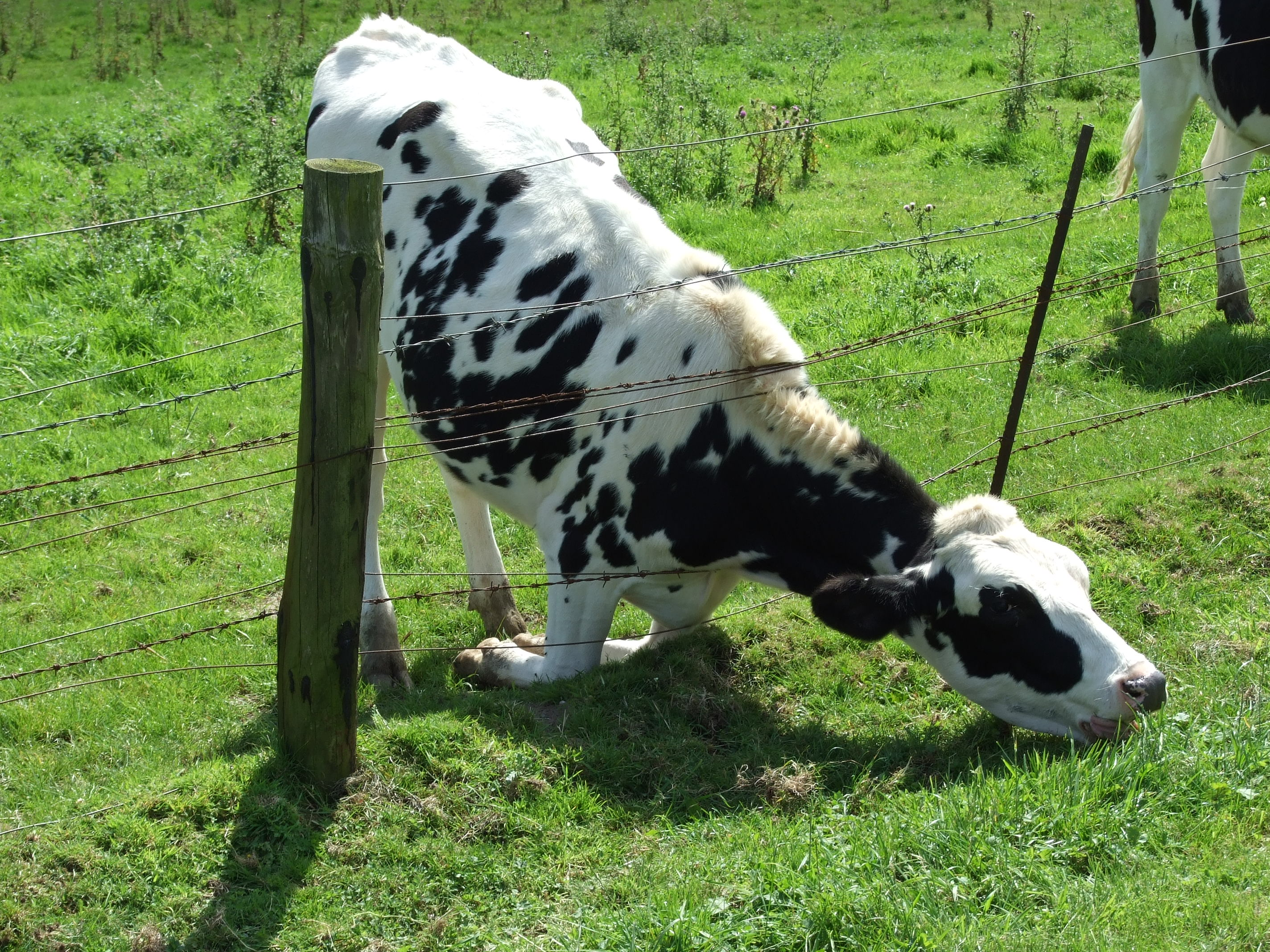 Kneeling cattle eating grass through a barbed wire fence.